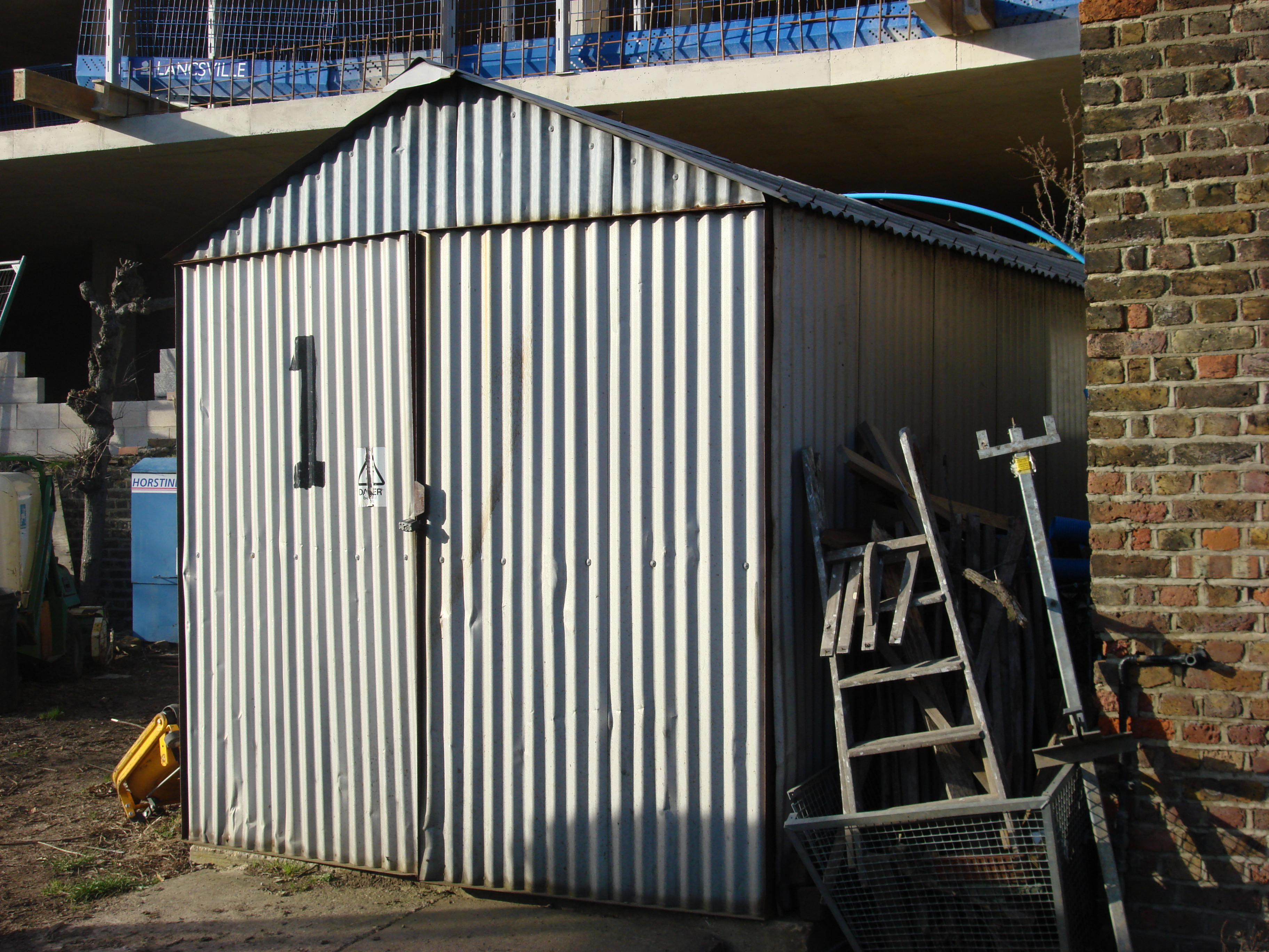 Corrugated iron shed in Paddington Cemetery